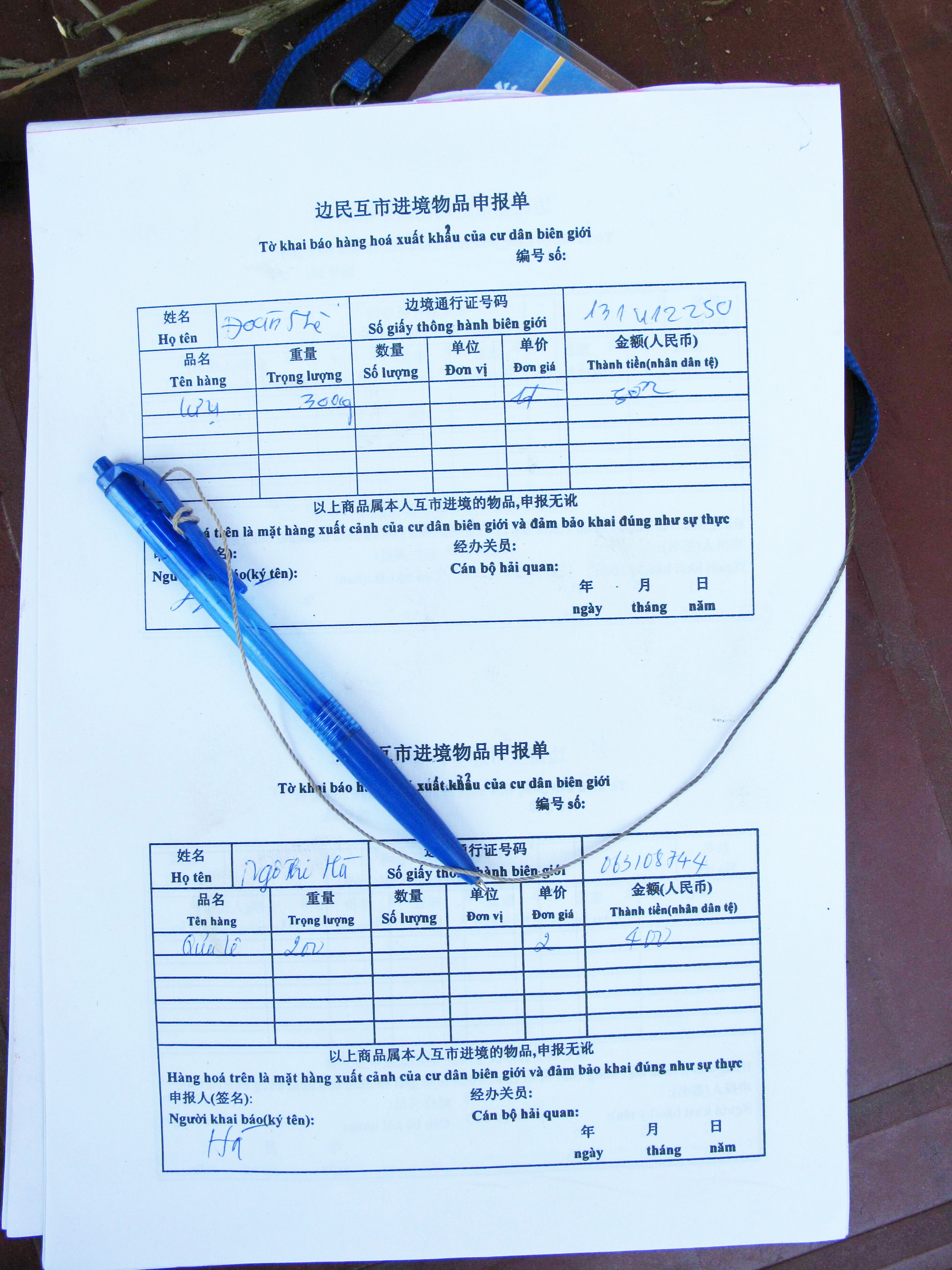 A ball pen.